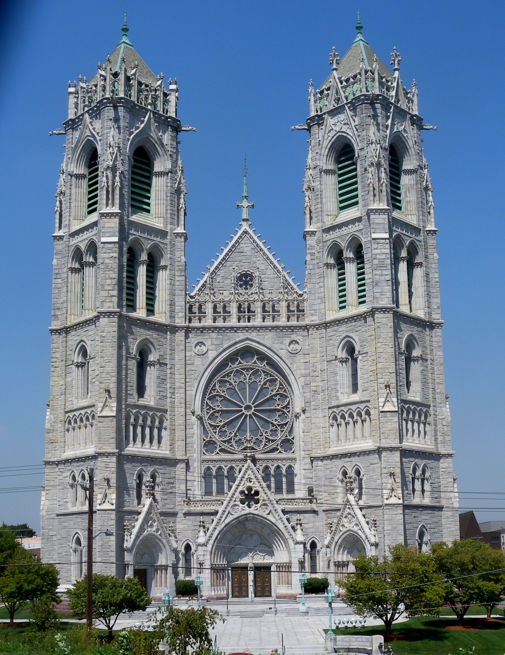 Looking north from a hill in Branch Brook Park, at Sacred Heart on a sunny midday.